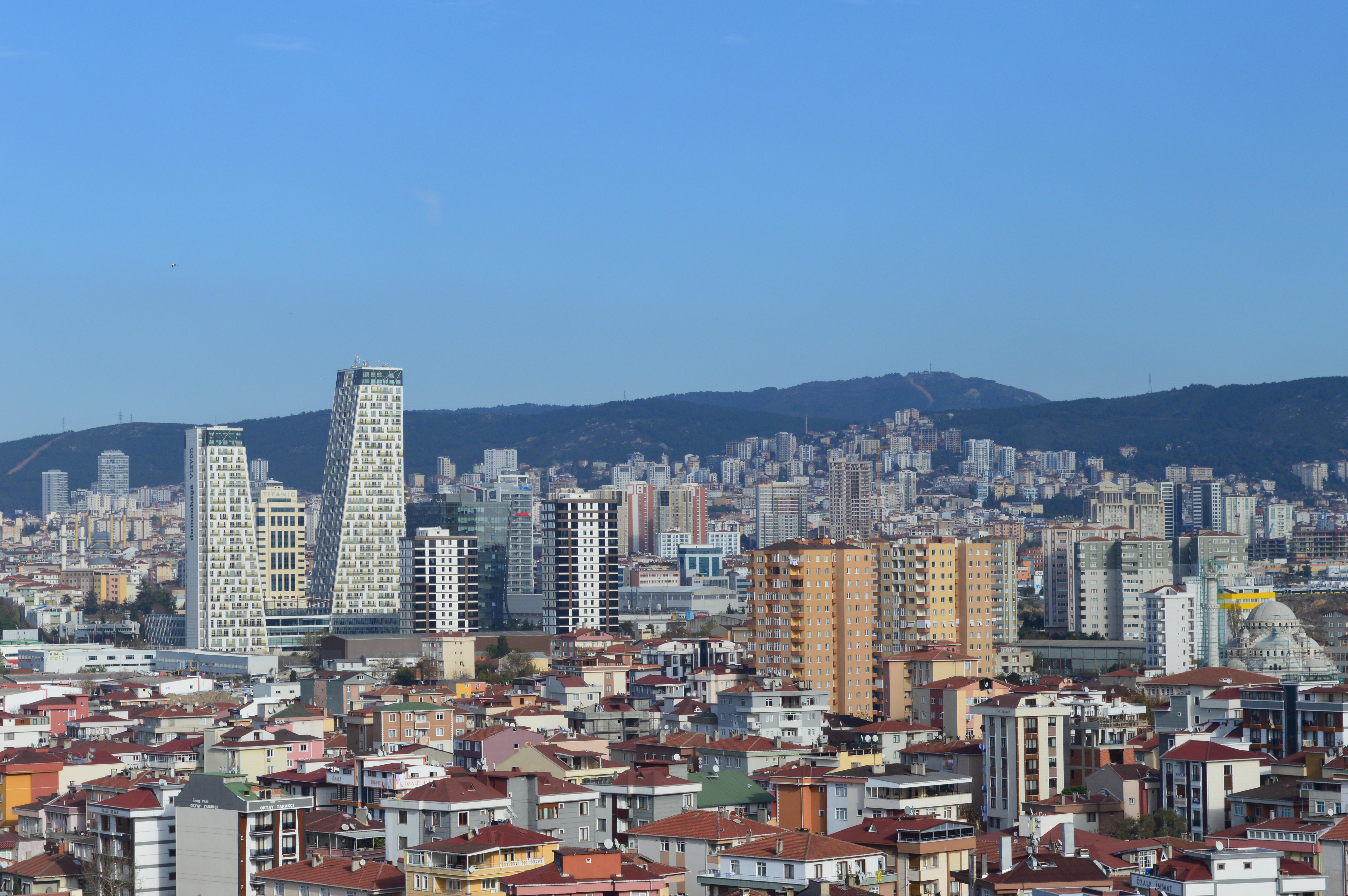 Skyline of Kartal district, Istanbul, Turkey.